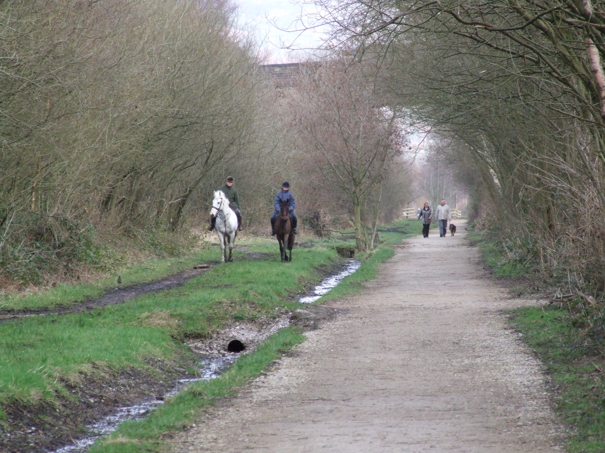 Longdendale in Derbyshire is the valley of the River Etherow. The Longdendale Chain is a series orf reservoirs built to provide drinking water forManchester The Longenden Trail, built on the trackbed of the Manchester-Sheffield-Wath electric railway